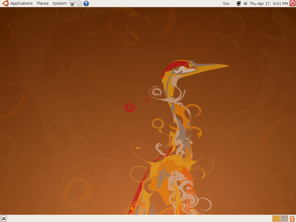 Screenshot of Gobuntu 8.04 (Beta)